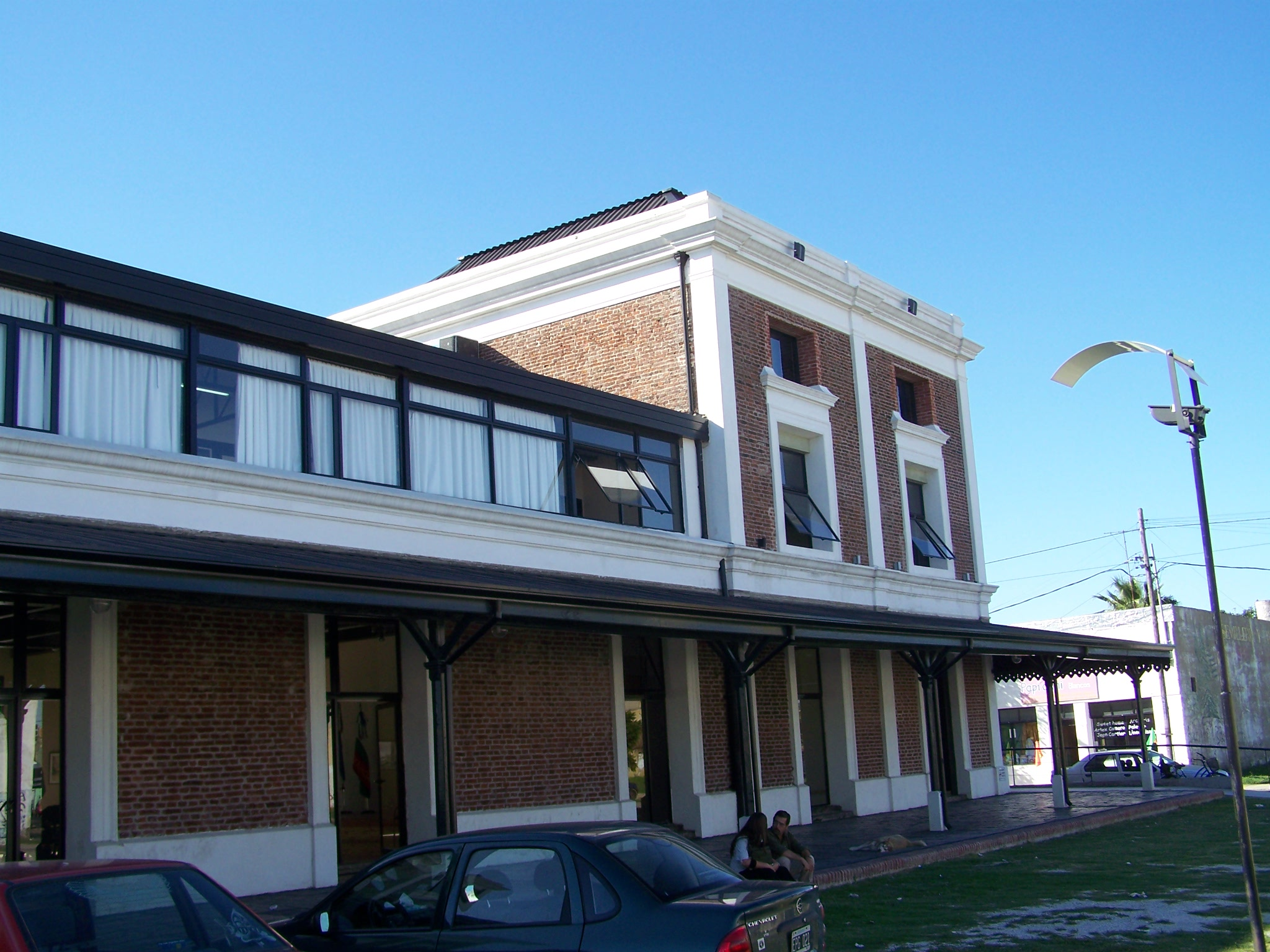 The Old Station Cultural Center, Ensenada, Argentina. Originally built in 1887 for the Buenos Aires and Ensenada Port Railway, the station was shuttered in 1970 and in 2006 was reopened as a cultural center.